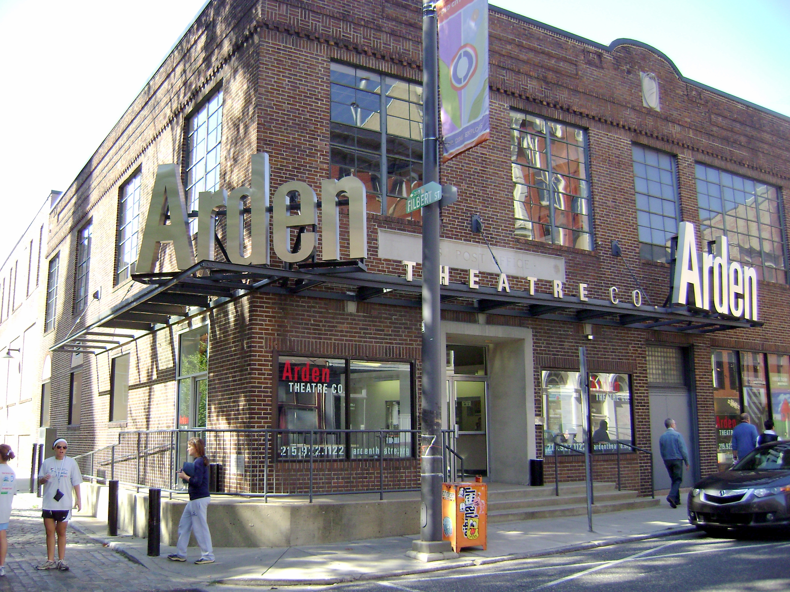 The Arden Theatre, 40 North 2nd Street